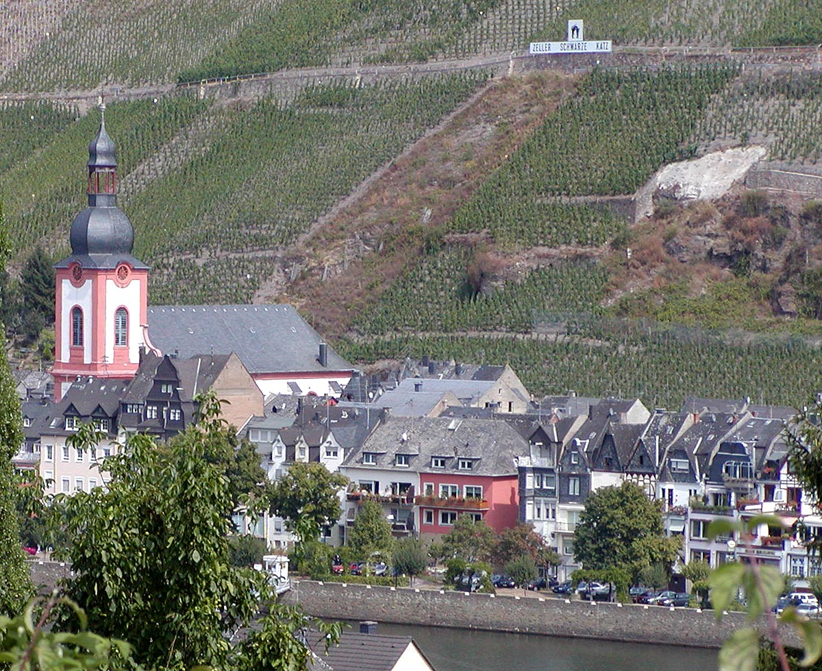 Photo of Zell (Mosel), Rhineland-Palatinate, Germany